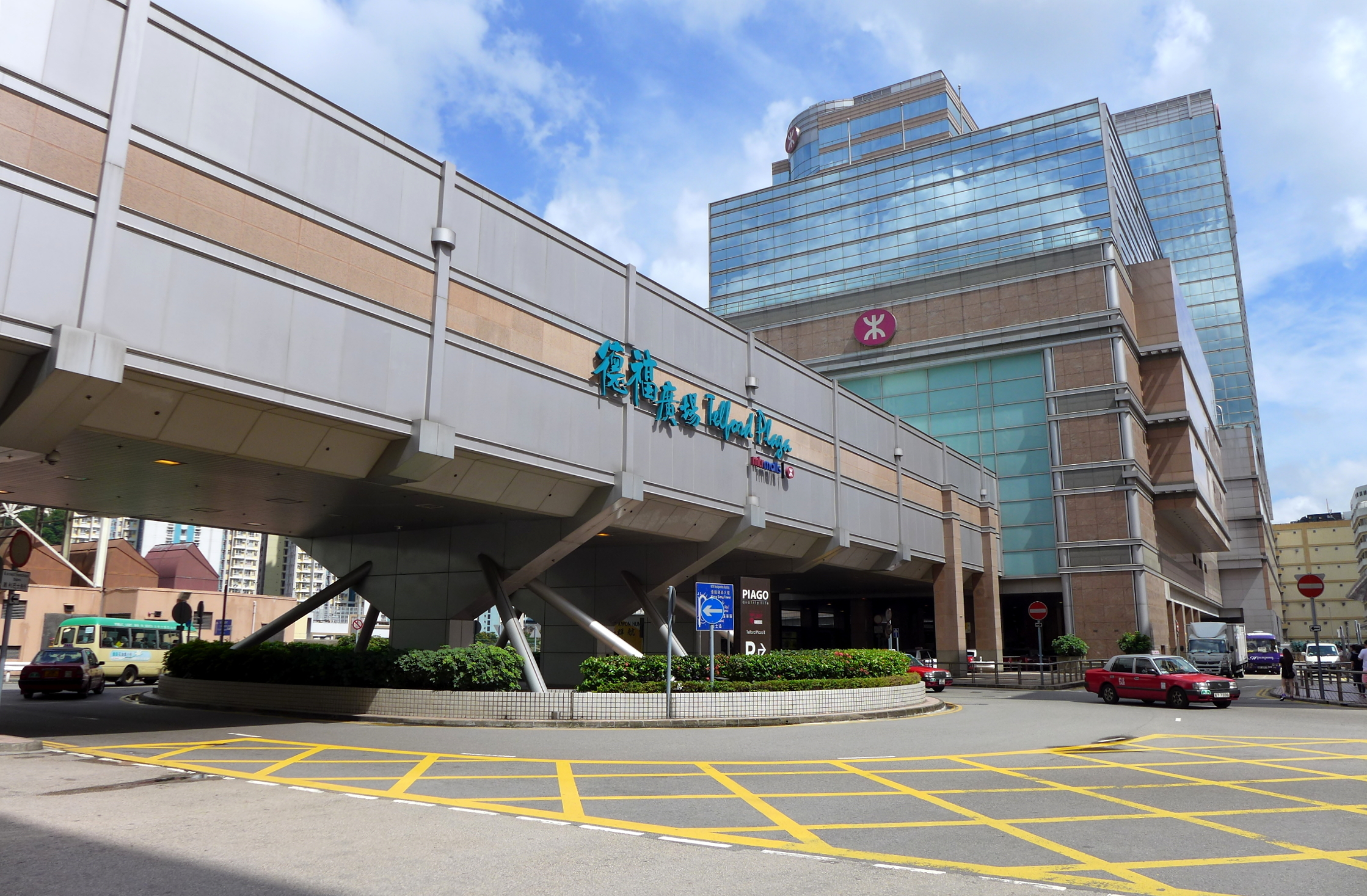 Telford Plaza Phase 2 Exterior